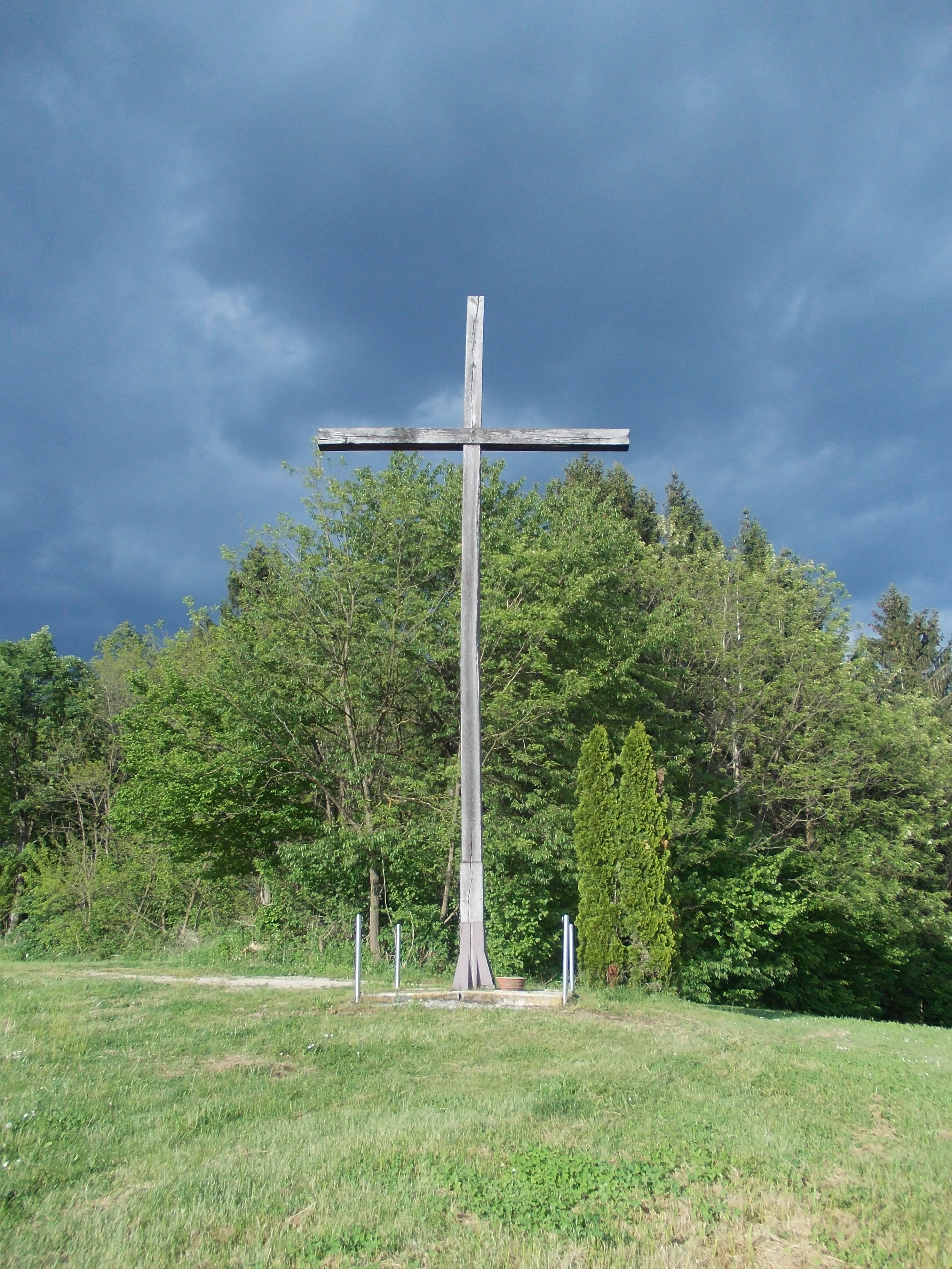 Gazice